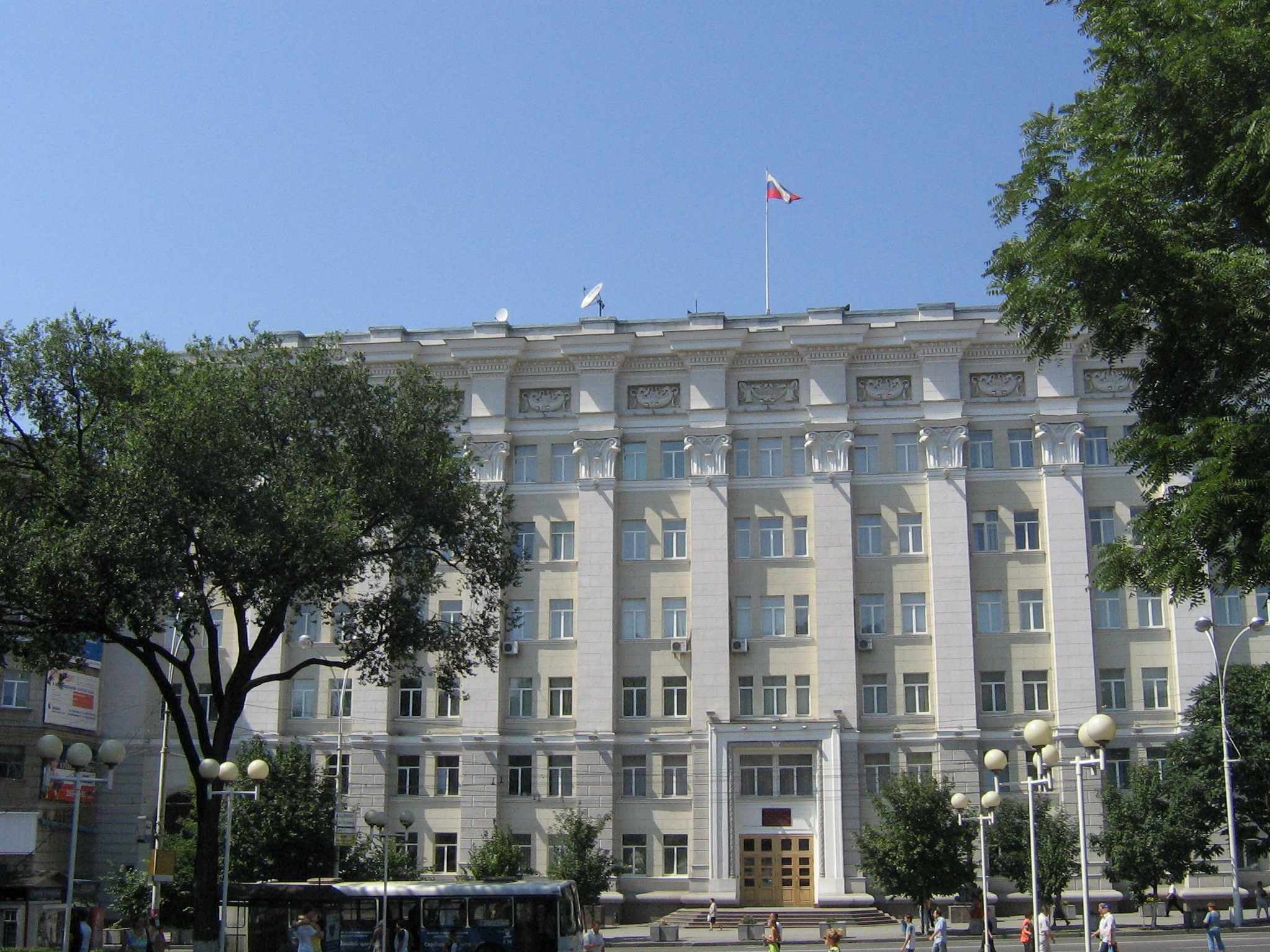 Representation of the President in Southern federal district(Rostov-on-Don)